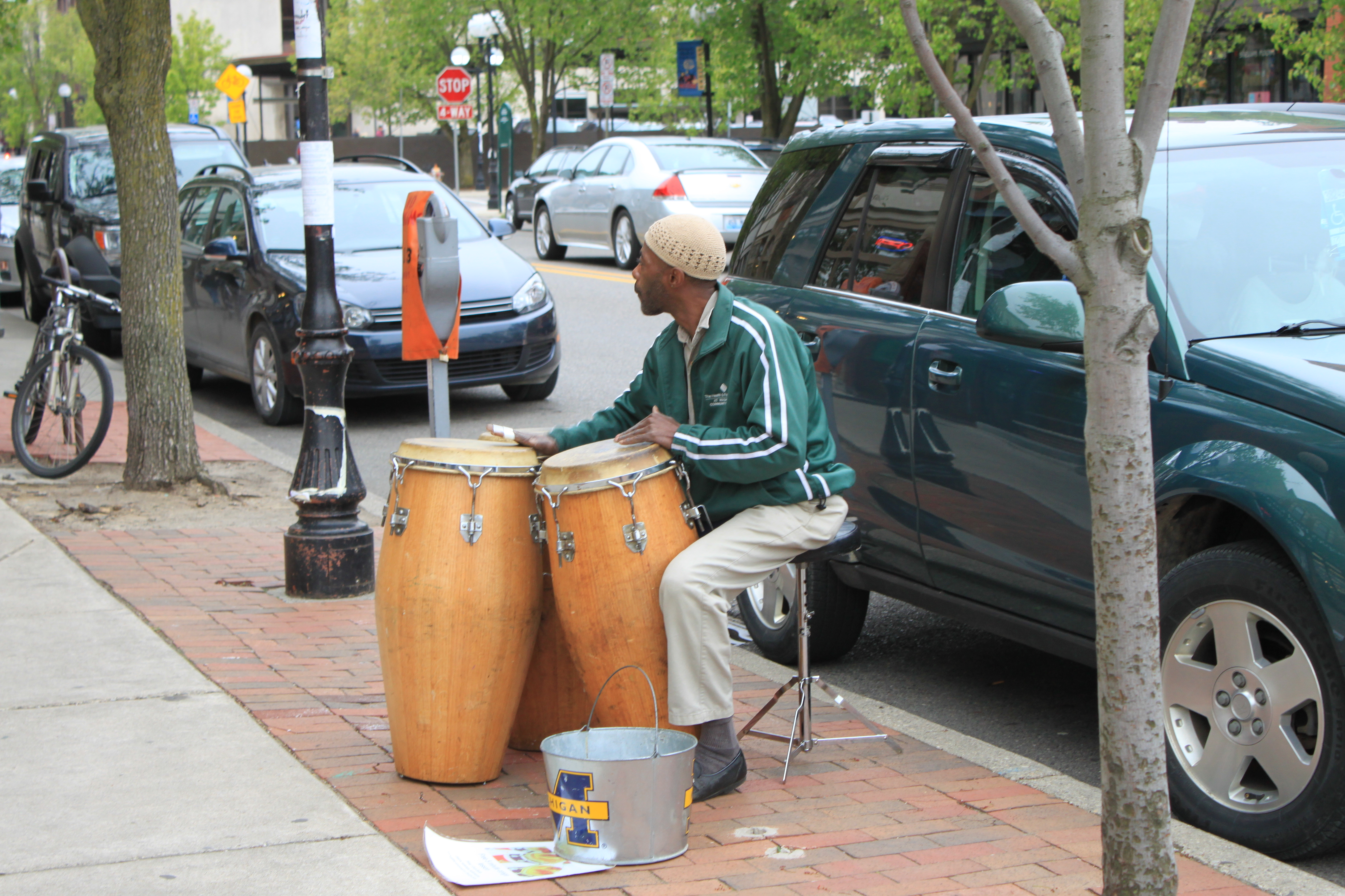 Street musician playing drums, ~216 North Fourth Street, Ann Arbor Michigan. This was taken on a Saturday when the adjacent Kerrytown Farmer's Market was open.